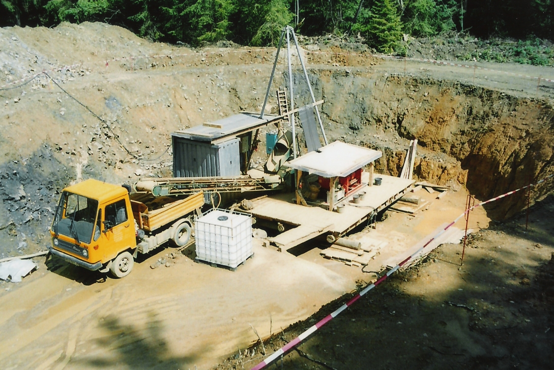 Rehabilitation work at shaft 26 (Waldschacht) of the former SAG/SDAG Wismut near Schneeberg, Erzgebirge, Germany